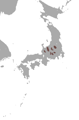 Azumi Shrew (Sorex hosonoi) range